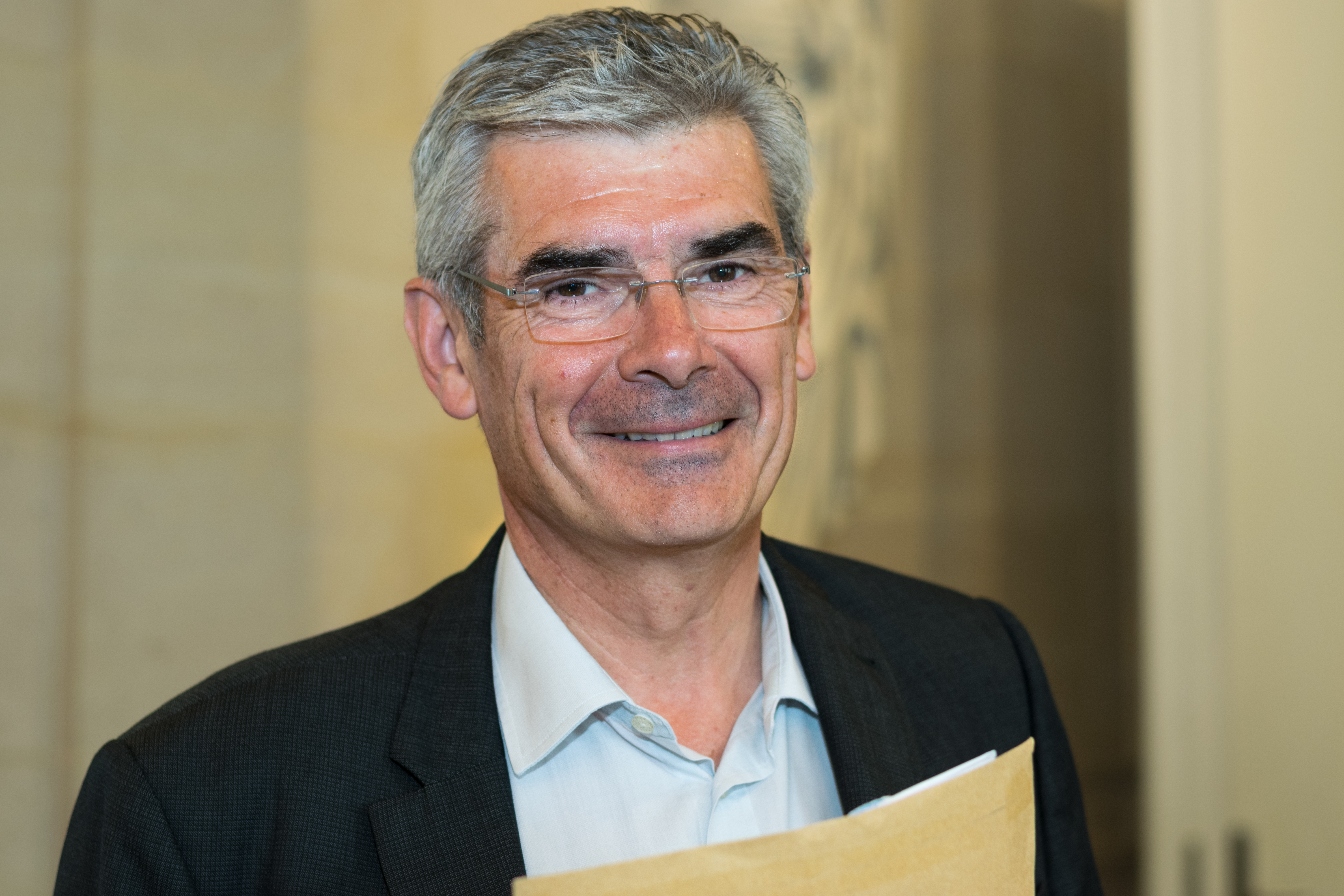 Thierry Michels in the salle des Quatres Colonnes of the Palais Bourbon (Paris, France).